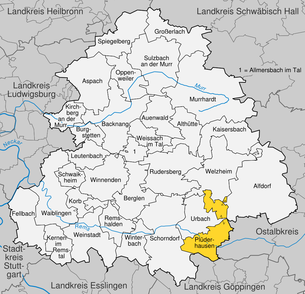 position of Plüderhausen within the Rems-Murr-Kreis, Baden-Württemberg, Germany